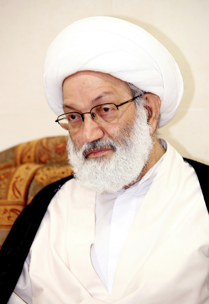 Personal picture for Sheikh Isa Qassim